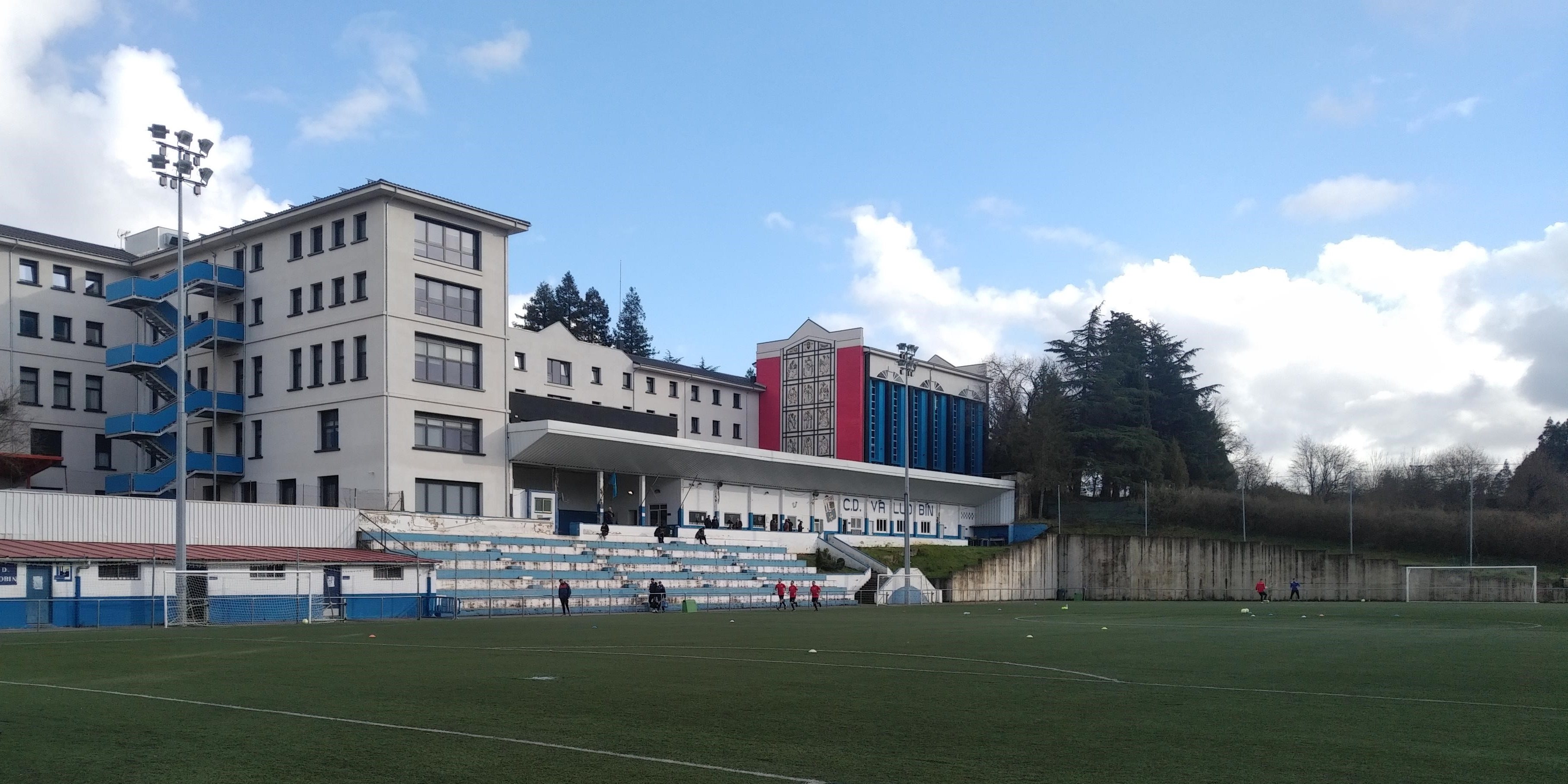 Campo de Fútbol de Vallobín, football stadium located in Oviedo, Asturias, Spain.